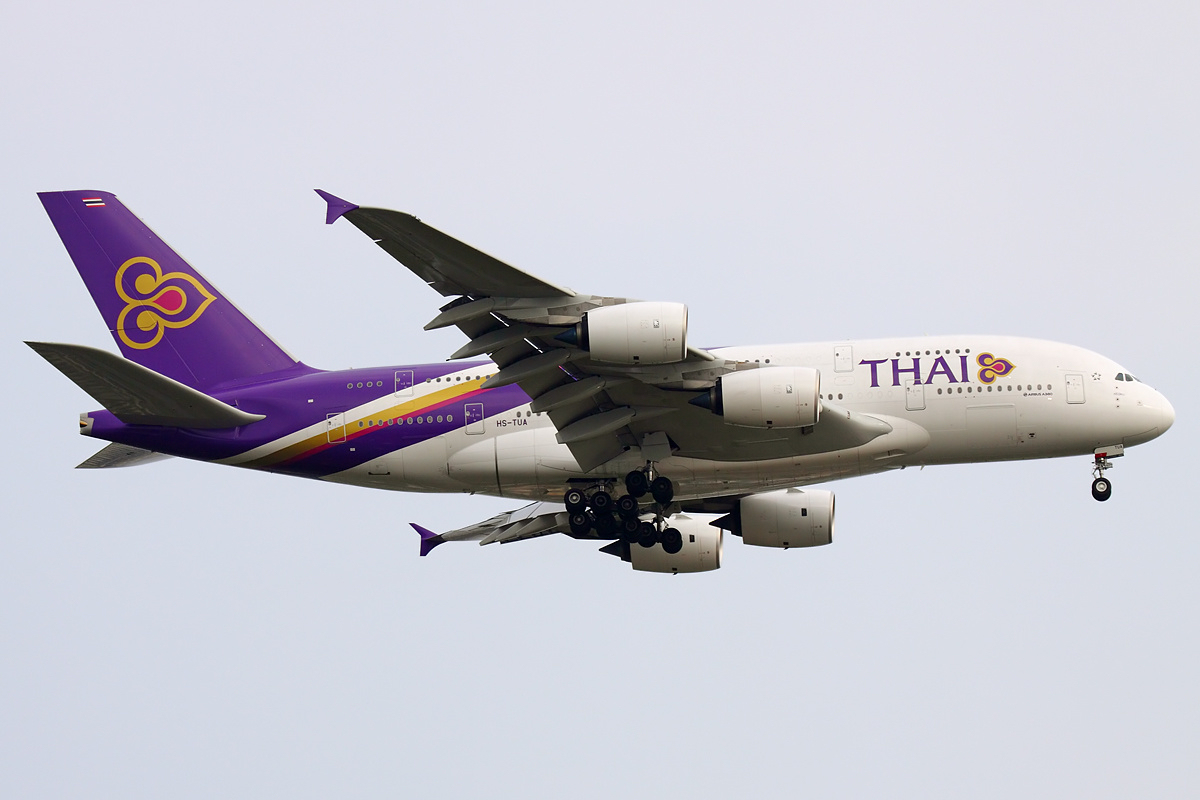 Airbus A380 of Thai Airways International